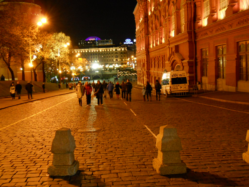 Kremlevsky Lane by night (Moscow, Russia)